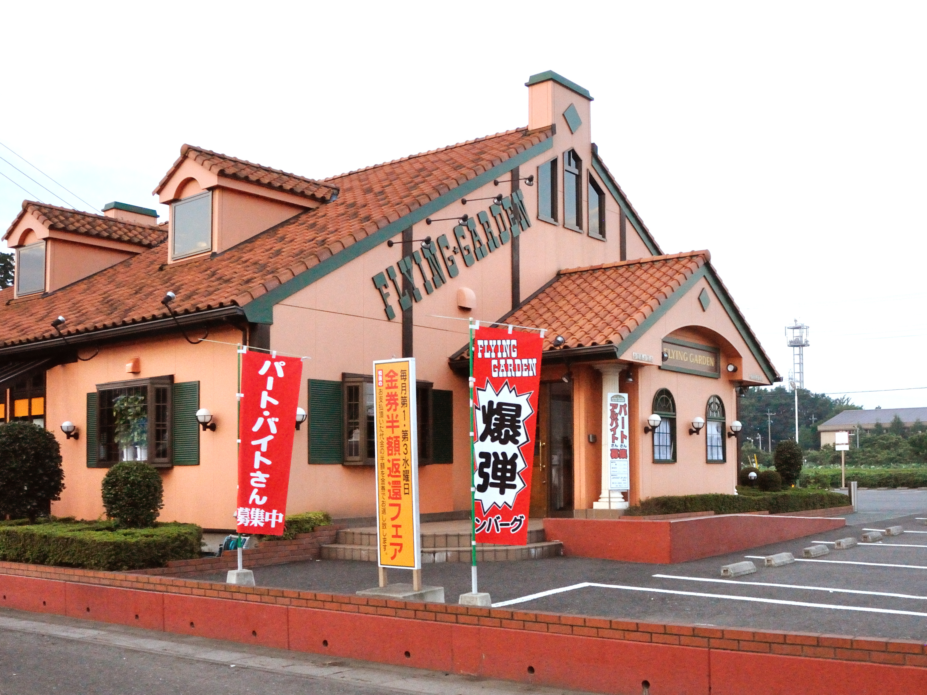 FlyingGarden Irumaten